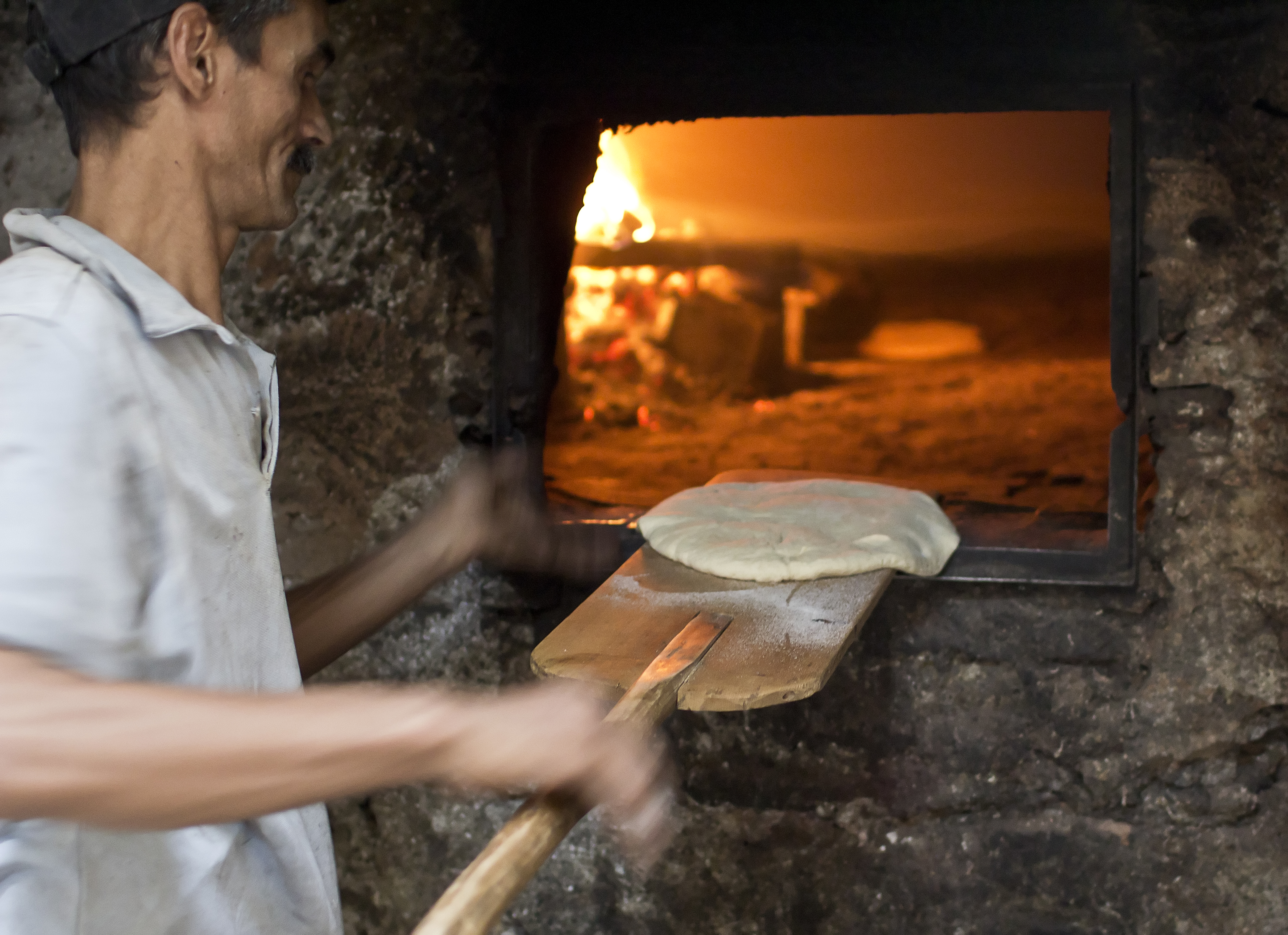 A baker slides a piece of flatbread into the oven to bake (in Morocco).